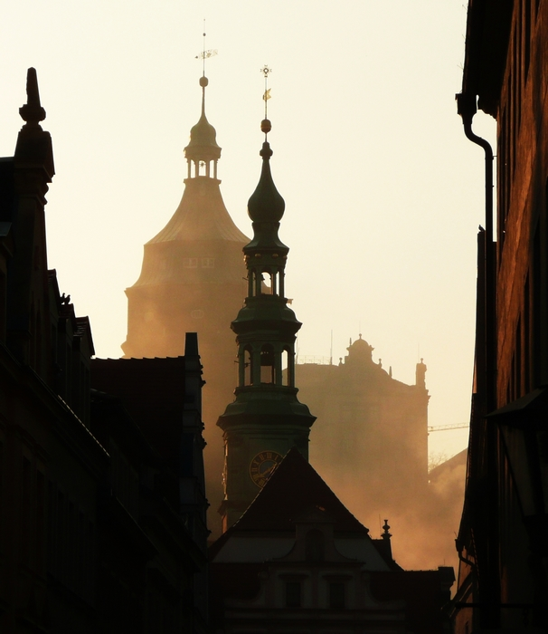 Pirna, Schössergasse with the towers of the townhall (tower built 1718) and the Church of Our Lady (tower built 1466–1479) (cultural heritage monuments).